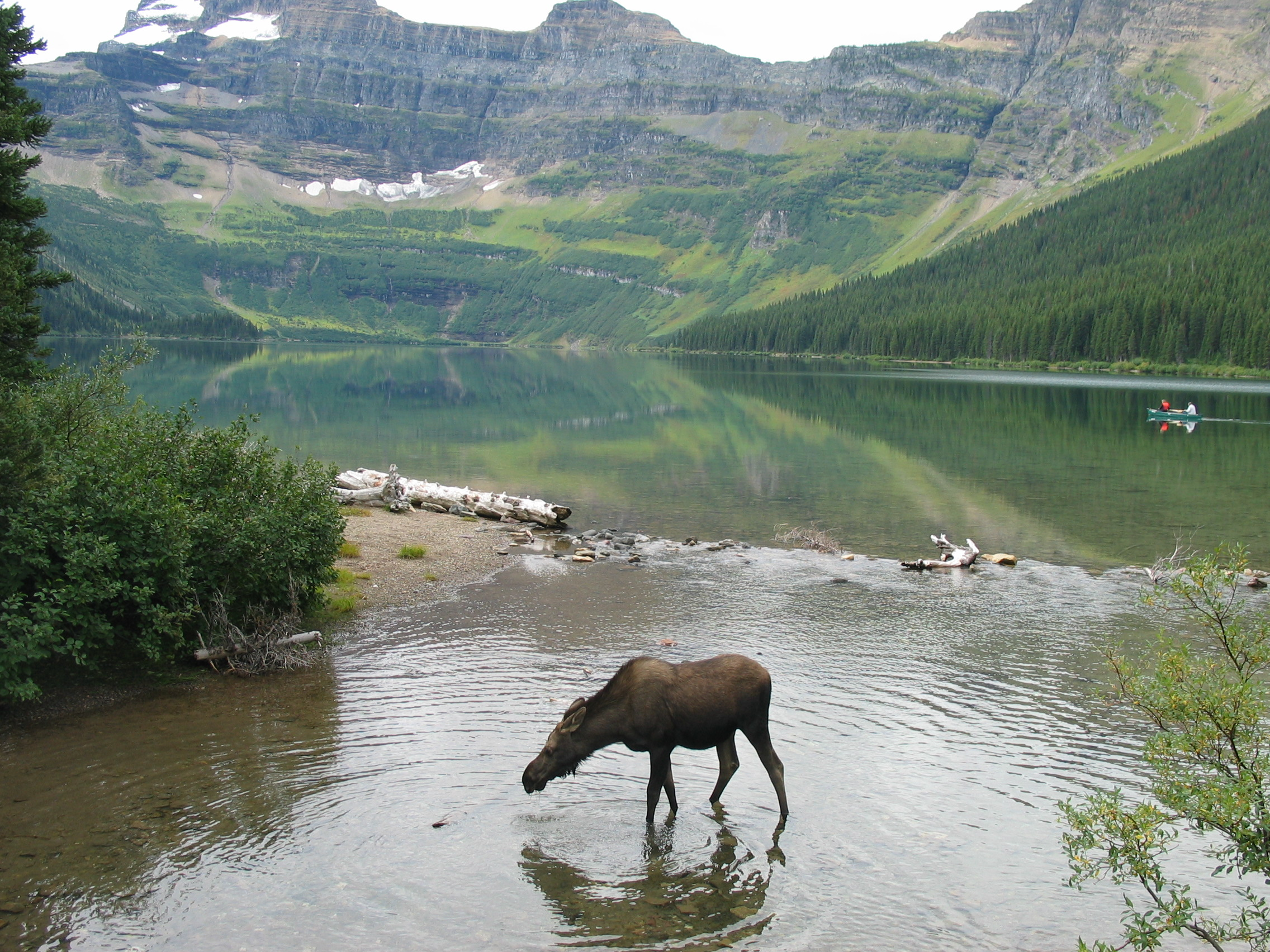 Moose at Cameron Lake, Waterton Lakes National Park Picture taken by myself Labour Day 2004